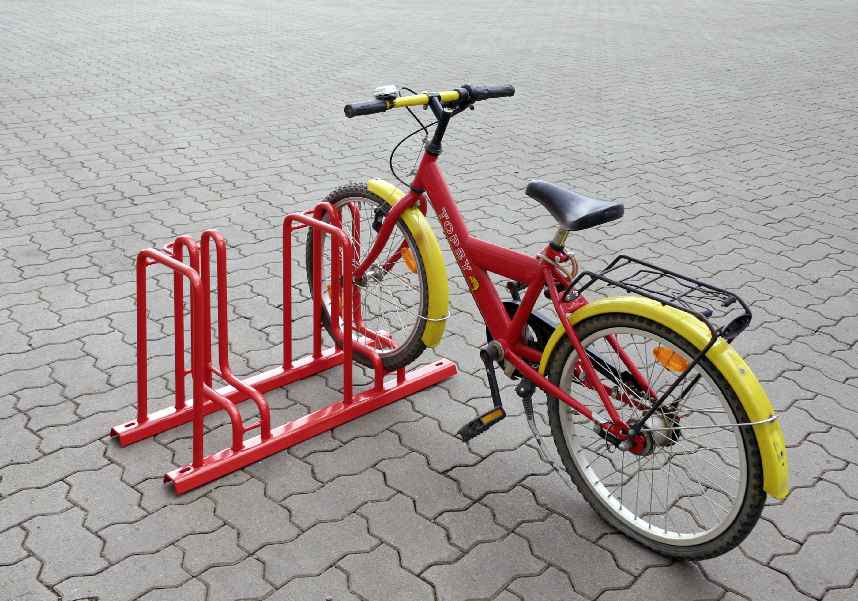 child's bicycle rack L15K